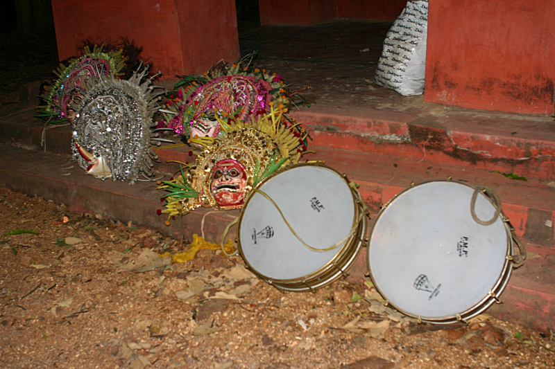 Author: anirbanbiswas_c8 Description: Masks and drums used in Chau dance, in Purulia district, West Bengal, India.